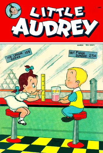 Cover of Little Audrey Comics, volume 1, number 9, March 1950, as published by St. John Publications Co. This version of the character has lapsed into the public domain, due to St. John failing to renew the copyright.